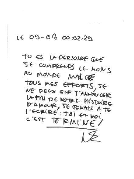 Letter